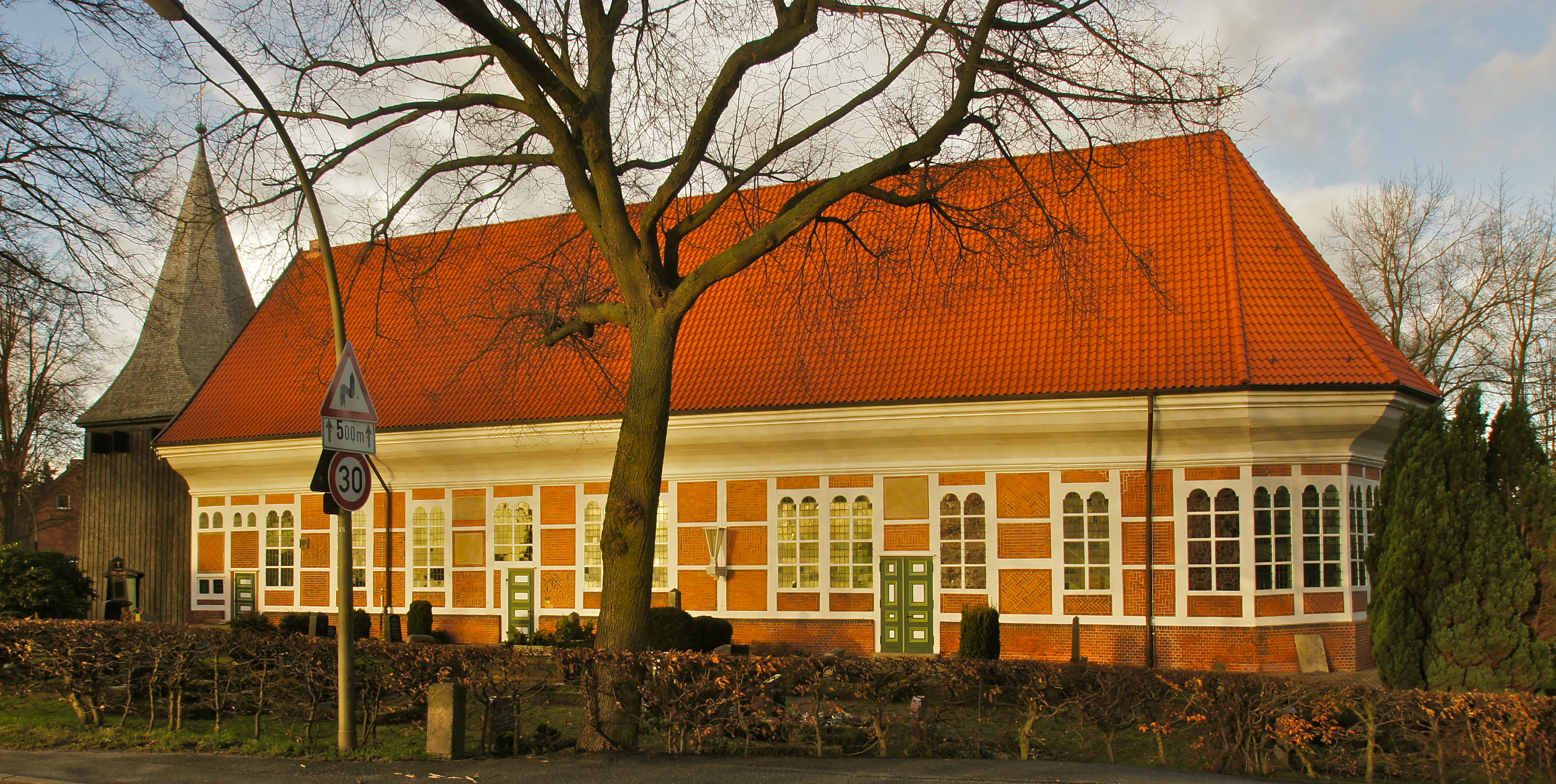 Hamburg (Allermöhe), Germany: Trinity-Church